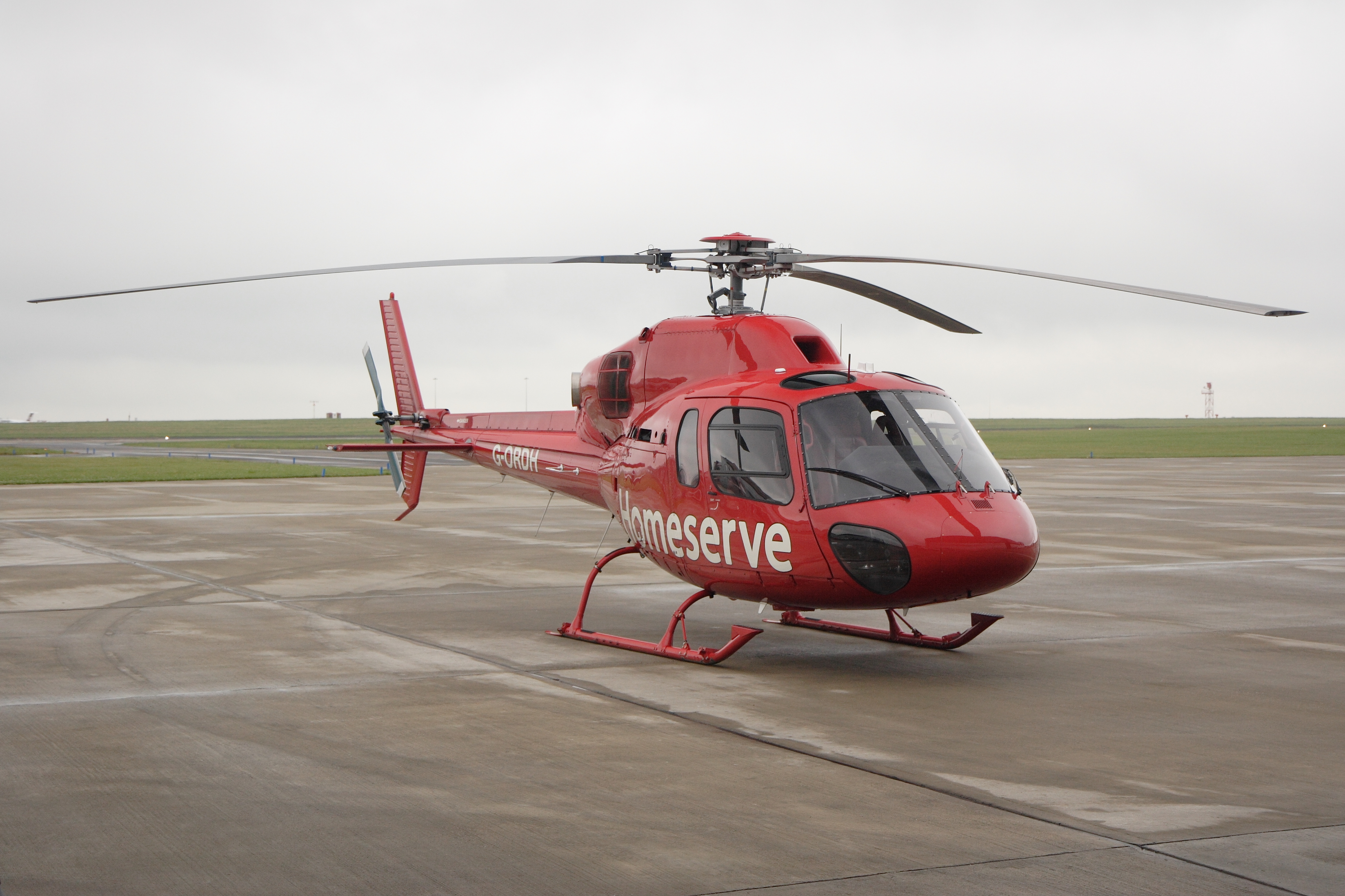 Aerospatiale Eurocopter AS-355N Twin Squirrel - G-ORDH in the UK